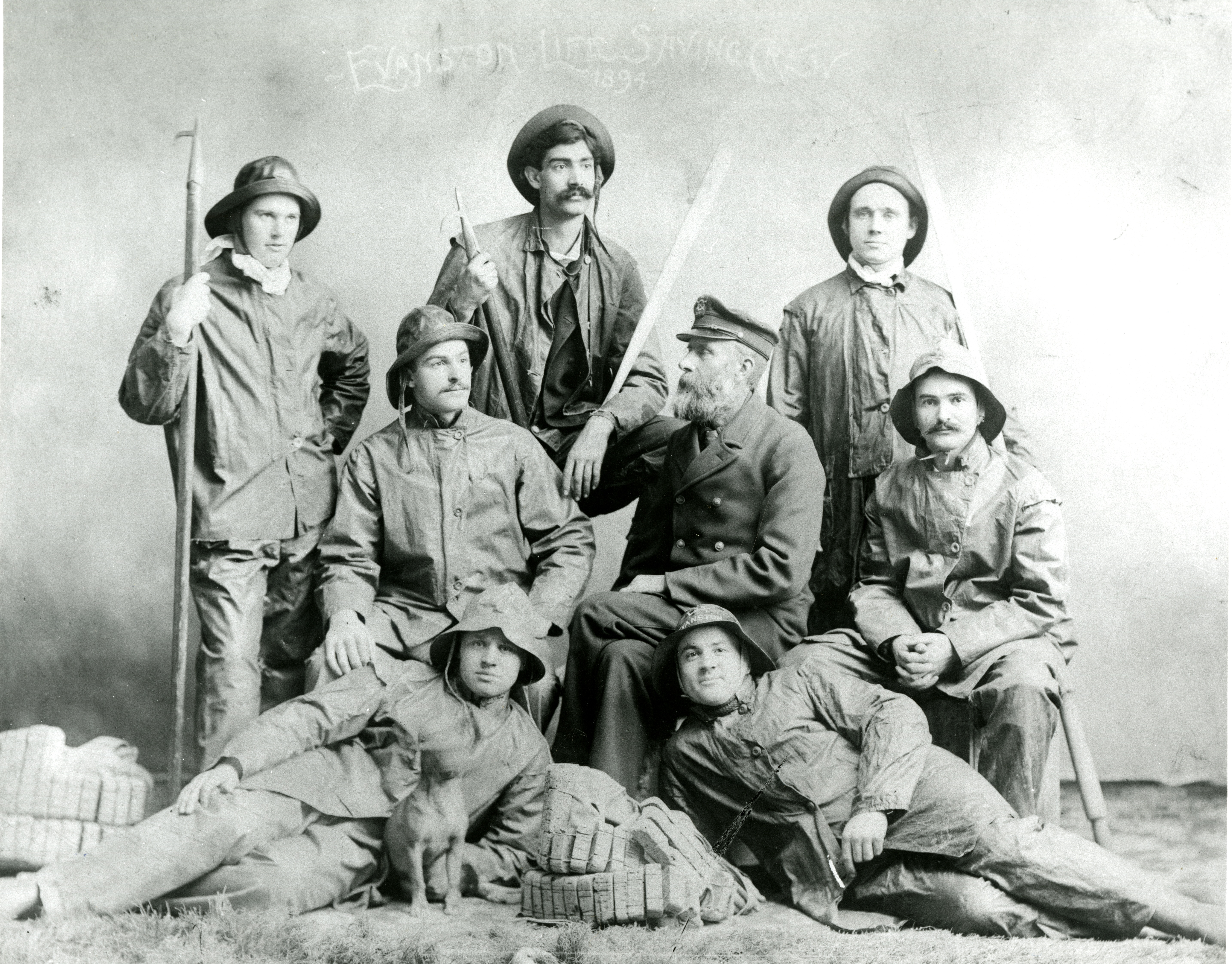 The crewmen from the Evanston station in 1894. U.S. Coast Guard photo.